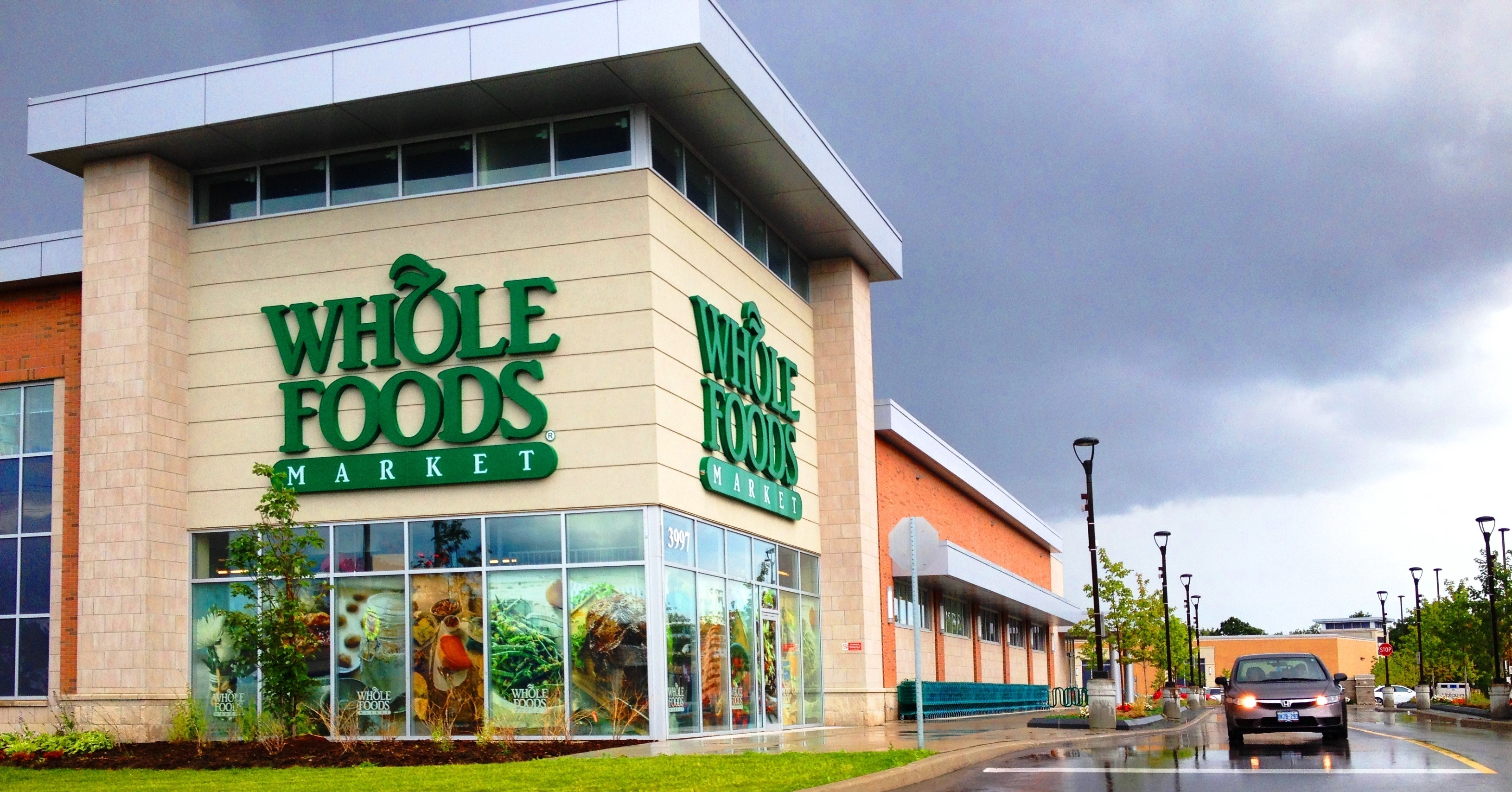 A Whole Foods Market in Markham, Ontario.